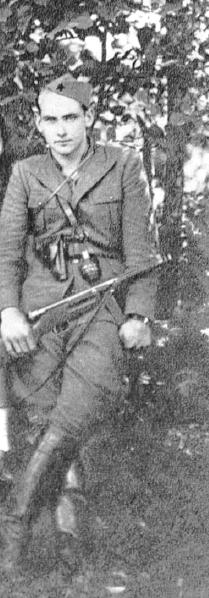 Pero Popivoda (1916 — 1979), Montenegrin partisan and general of Soviet Army